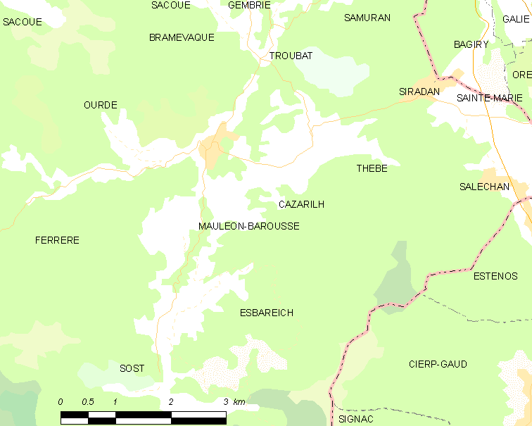 Map of French municipality